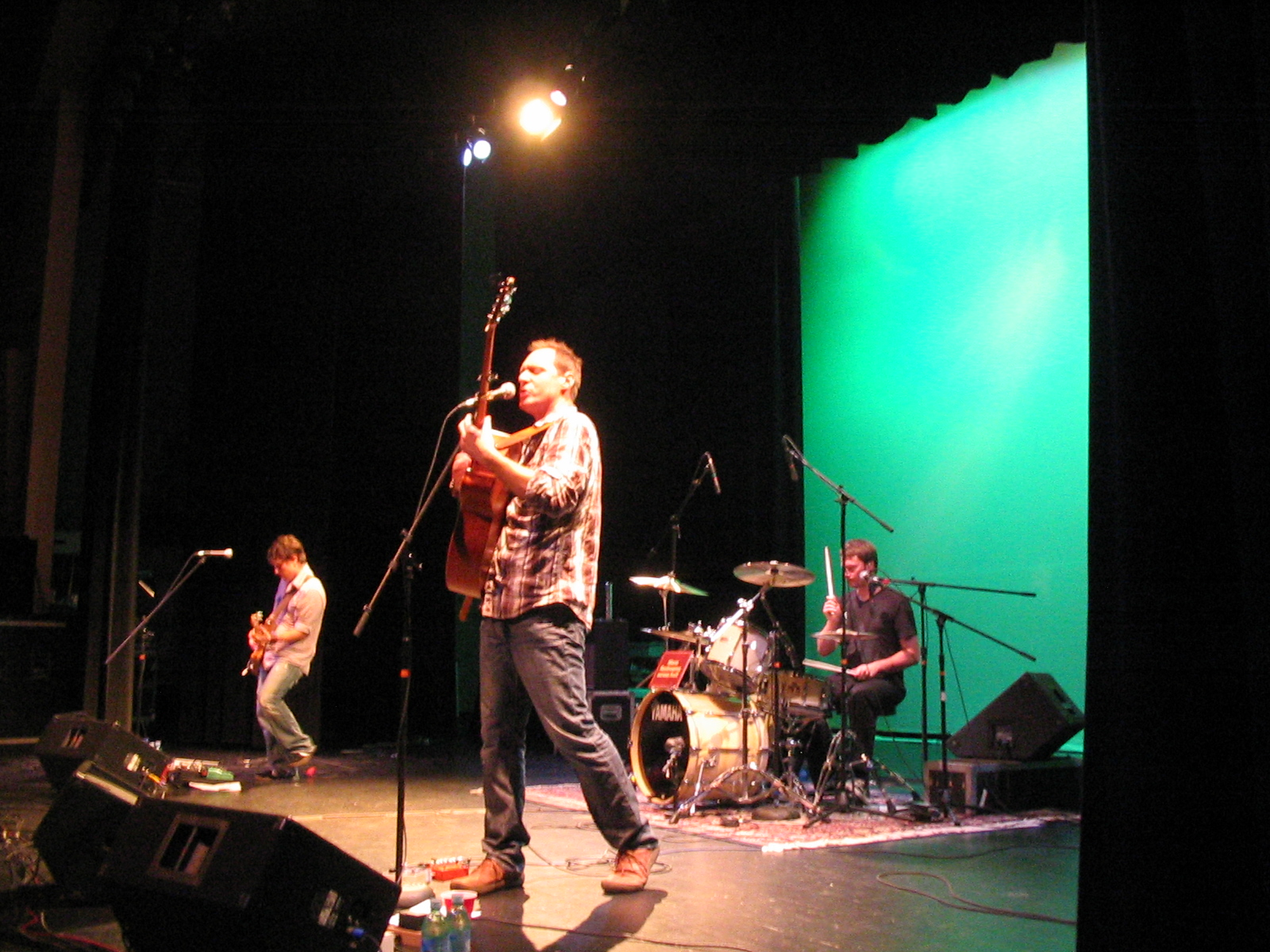 Dan Nichols and Eighteen performing at the Osher Marin JCC on October 30, 2010.